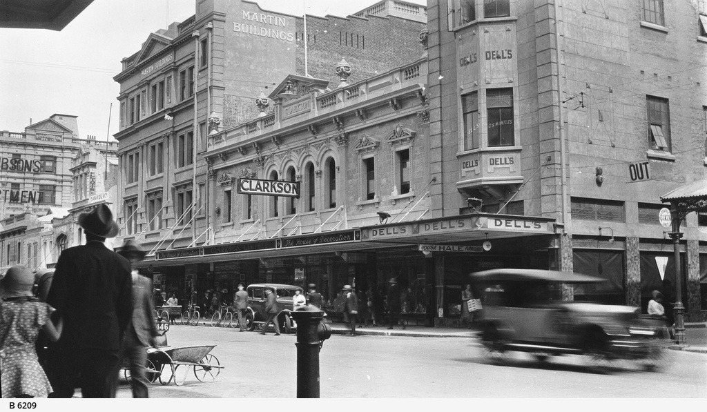 Rundle Street, Adelaide in 1932, looking east. The central building is Clarkson's glass suppliers.